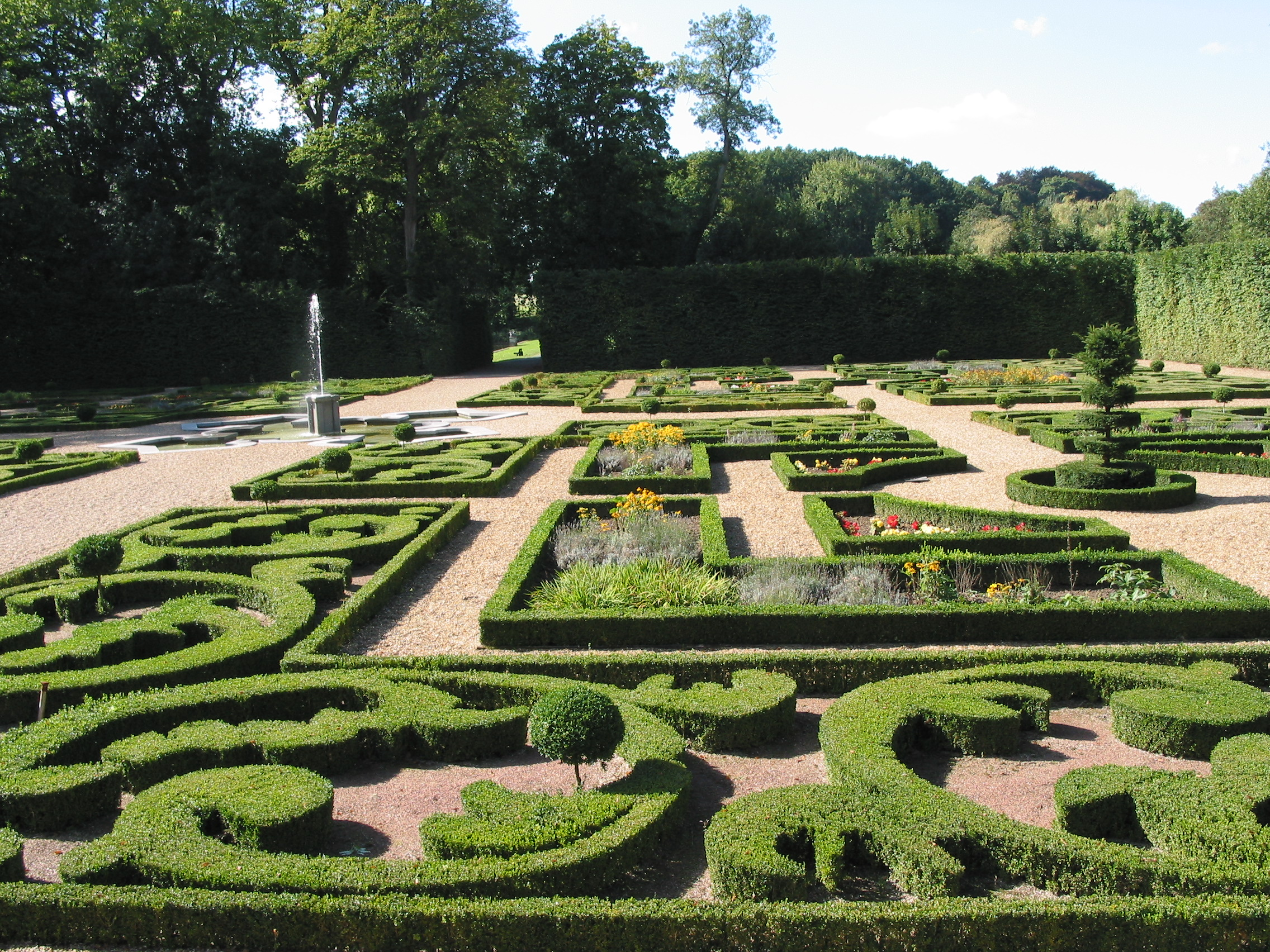 Enghien (Belgium), the castle park - the "Jardin des fleurs" (architect: Le Père Charles de Bruxelles - XVIIth century).